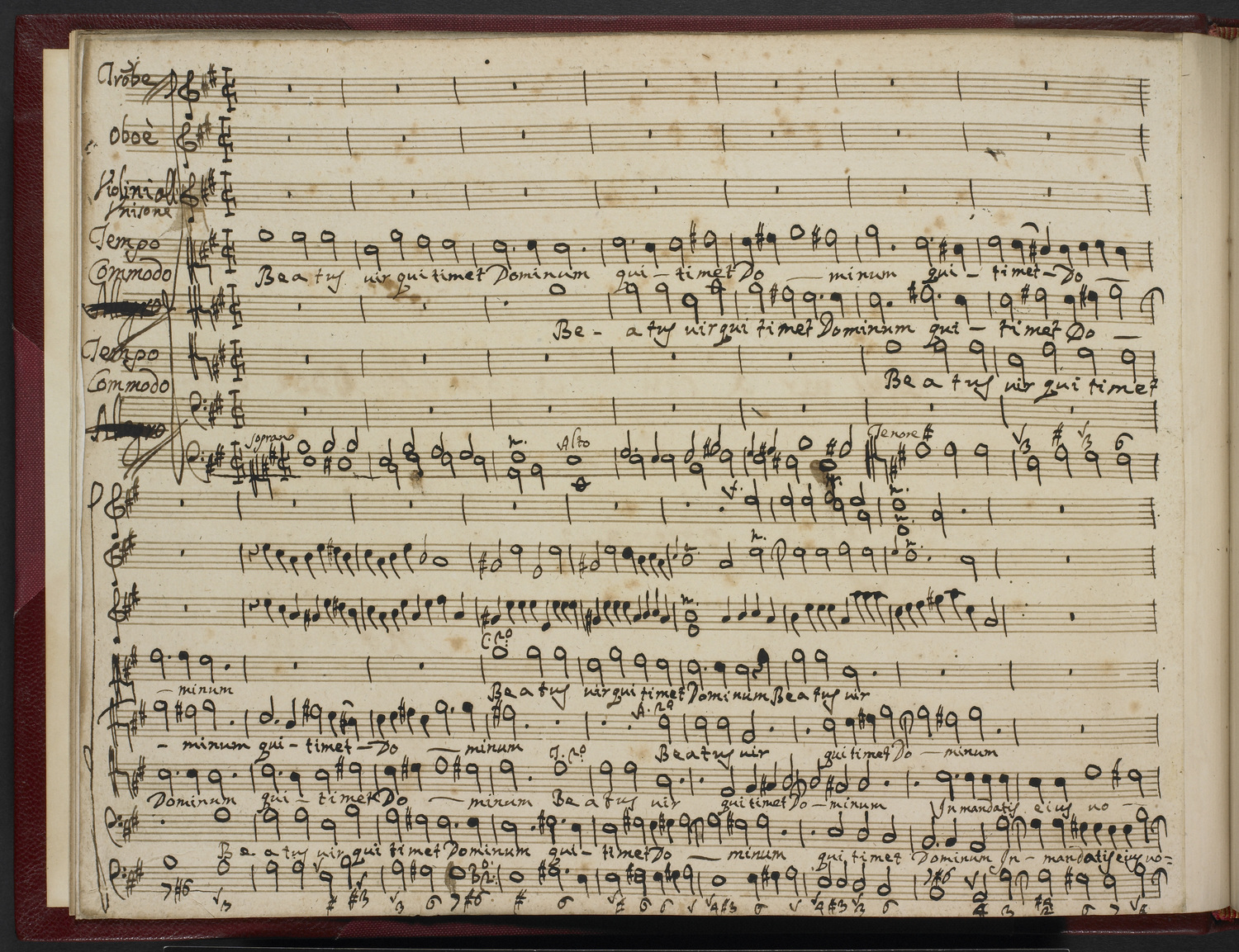 Beatus vir qui timet Dominum. In the composer's hand.